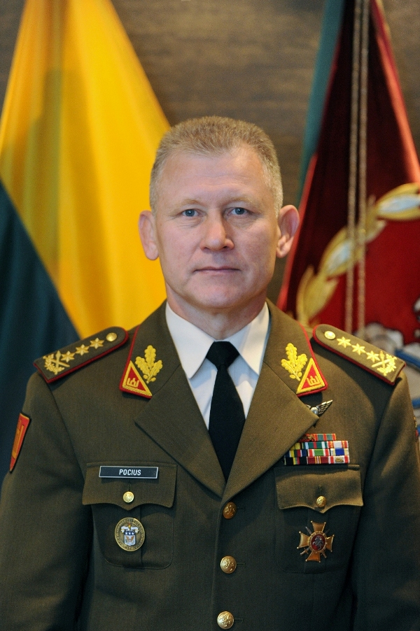 Chief of Defence of the Republic of Lithuania Liautenant General Arvydas PociusLietuvių: Lietuvos kariuomenės vadas Generolas leitenantas Arvydas Pocius